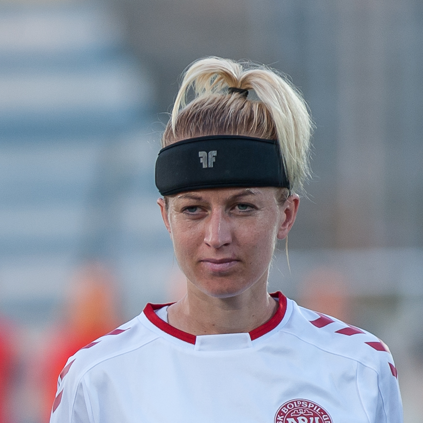 6/7/17, Wiener Neustadt, Austria, sports, football, women's international friendly match - Austria vs Denmark. Image shows Janni Arnth (DEN).